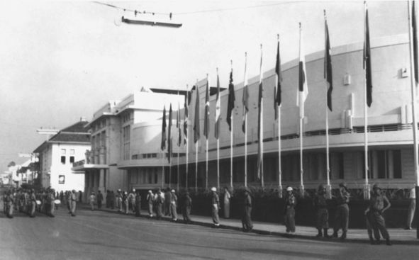 Gedung Merdeka in Bandung during the Asia-Africa Conference in 1955.